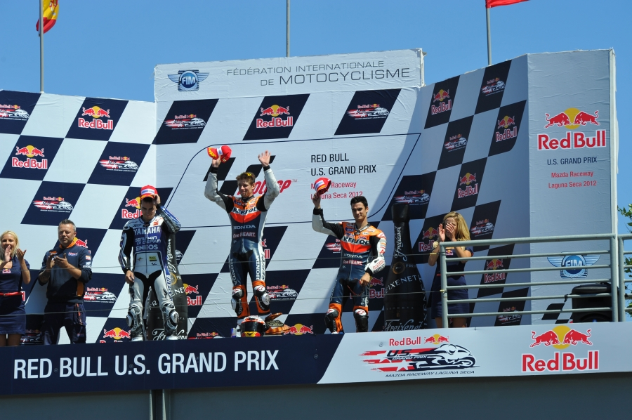 Jorge Lorenzo, Casey Stoner and Dani Pedrosa, celebrating on the podium after finishing in second, first and third position at the 2012 United States Grand Prix.